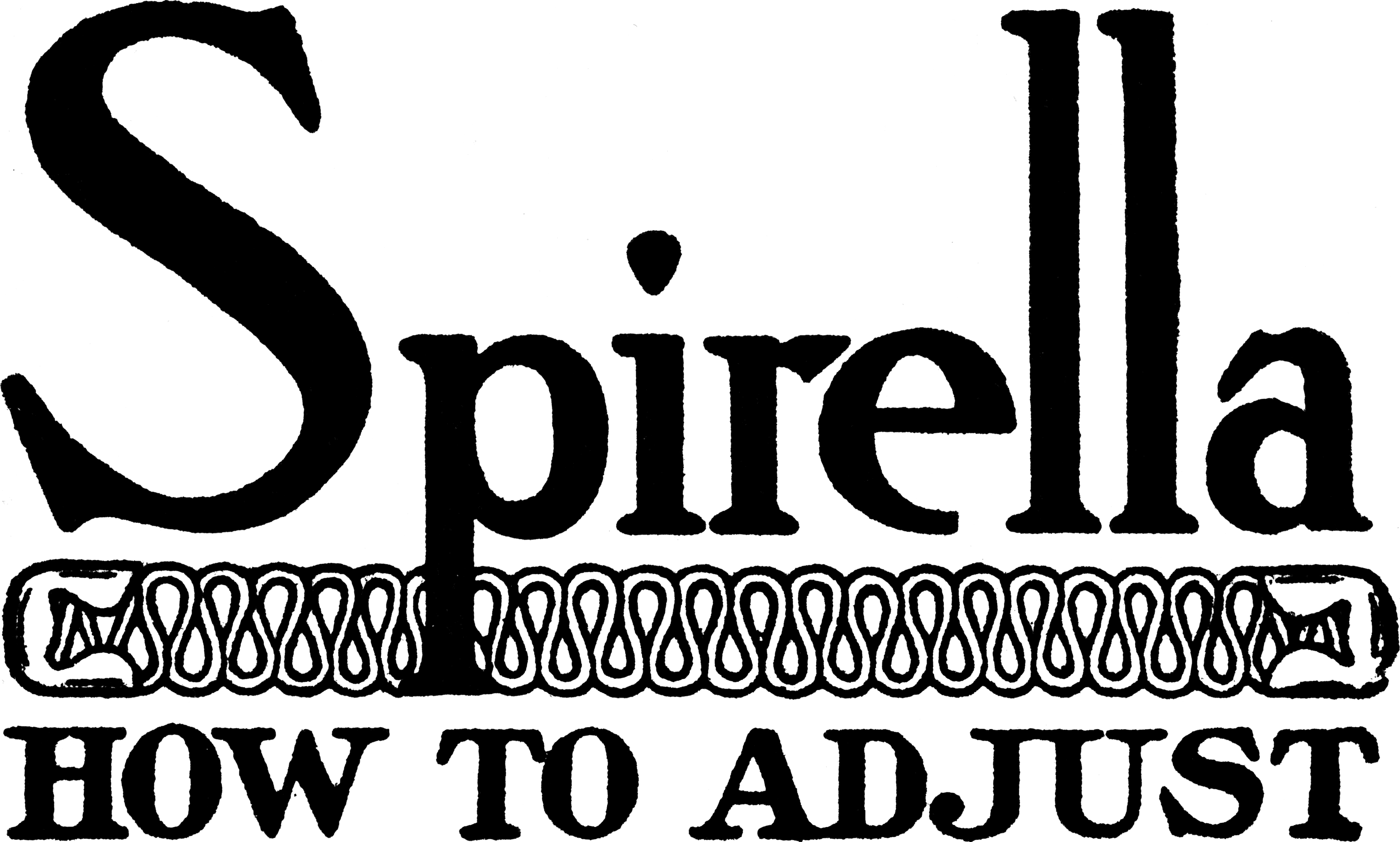 Spirella; How To Adjust